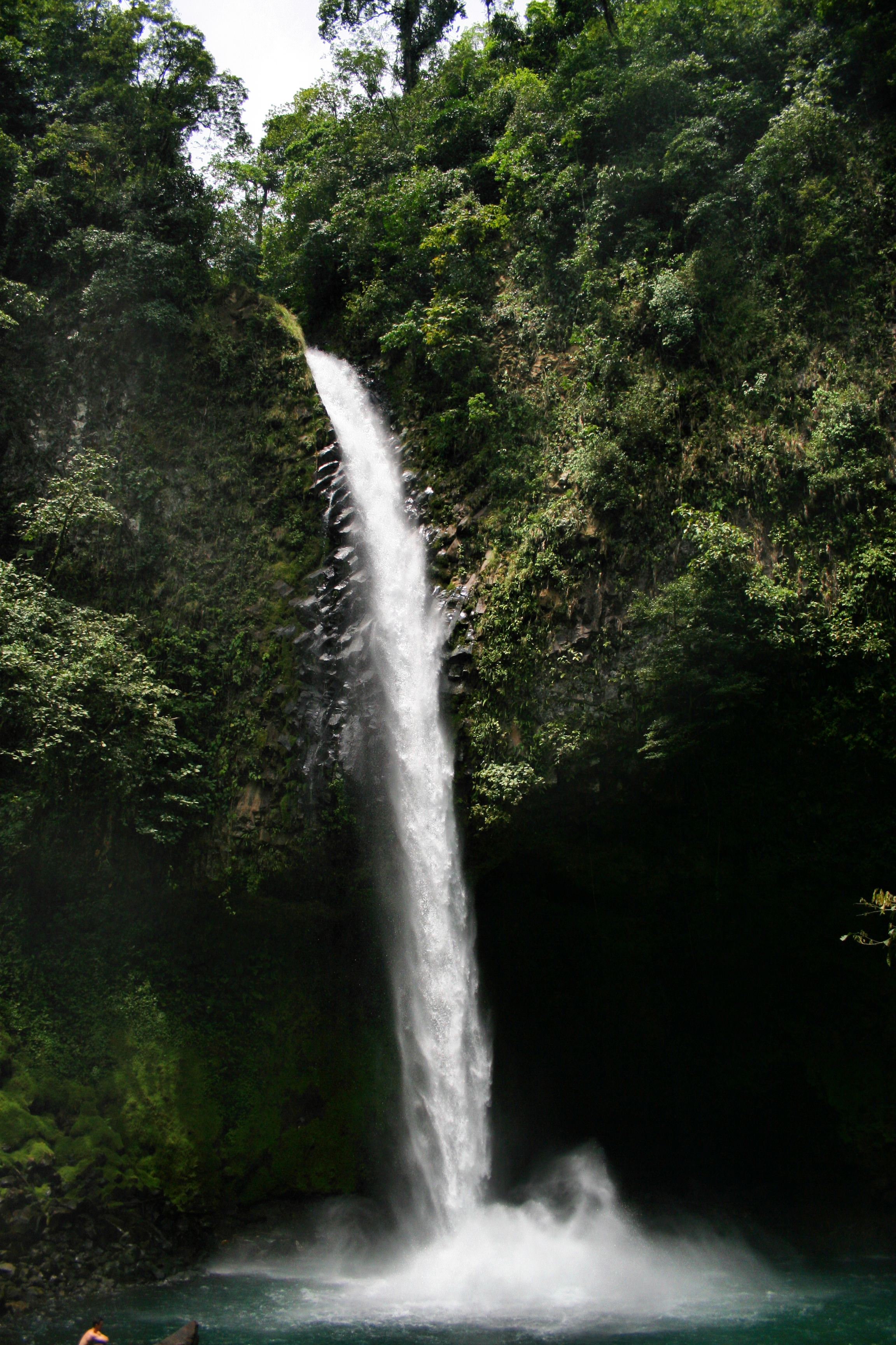 Full wide angle shot.